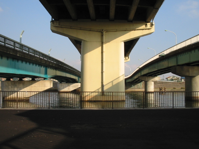 Shin-Tsubaki-Bashi (left), Minami-Tsubaki-Bashi (right), Edogawa-ku, Tokyo, Japan